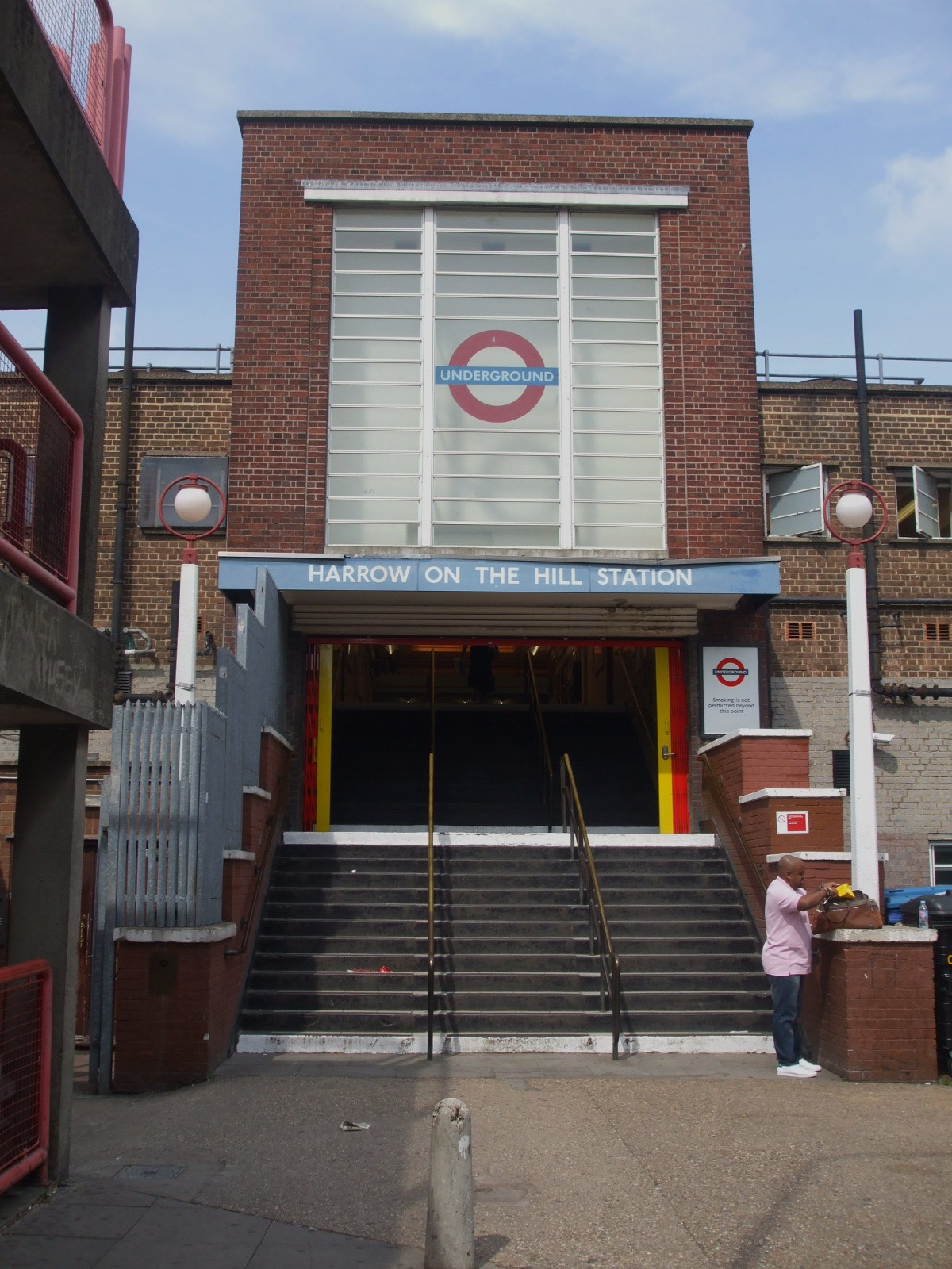 Harrow-on-the-Hill station southern entrance